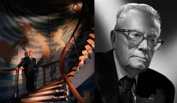 Maurice Allais photographed by Studio Harcourt Paris